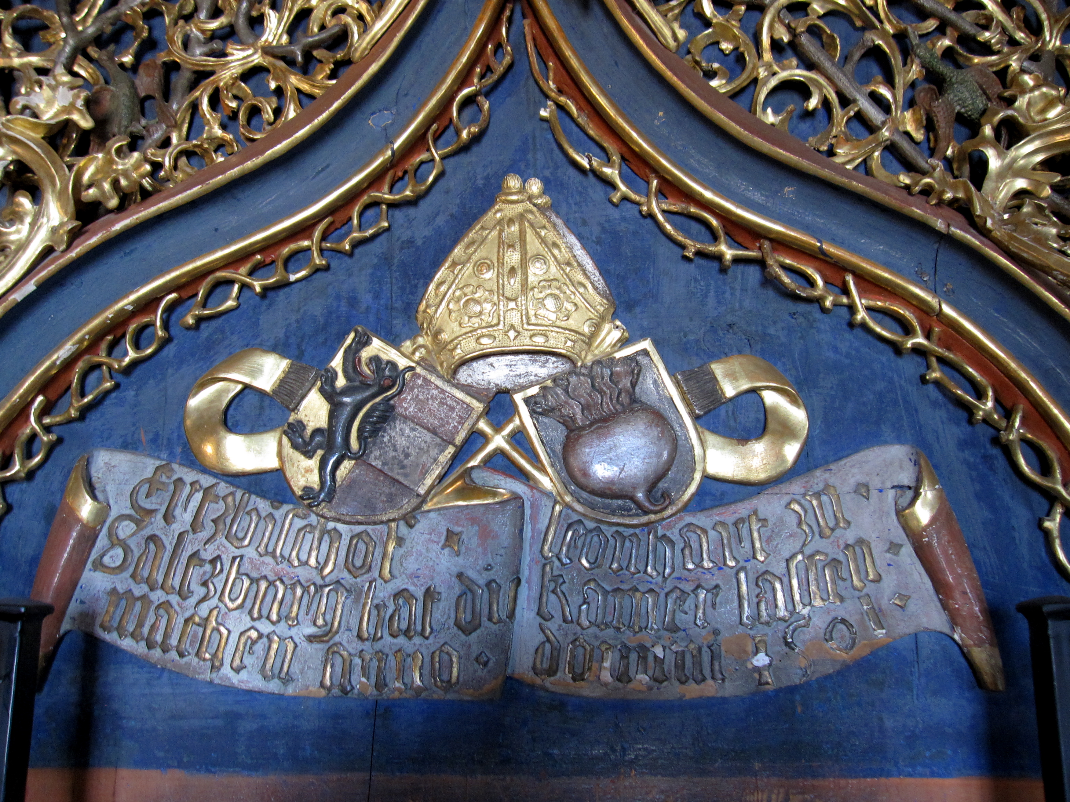 Coat of arms of Salzburg (left) and that of prince-bishop Leonhard von Keutschach above the door in the bedchamber of Hohensalzburg Castle.